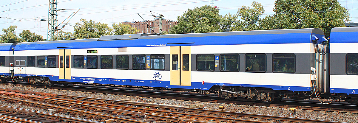 "Married Pair" intermediate car D-NOB 55 80 22-75 022-5 Bpmdza used in Hamburg-Köln-Express (HKX) trains, shown in HKX 1806 service (Hamburg-Altona to Cologne Central) passing the station "Köln Messe/Deutz" (Cologne Fair Ground/Deutz).